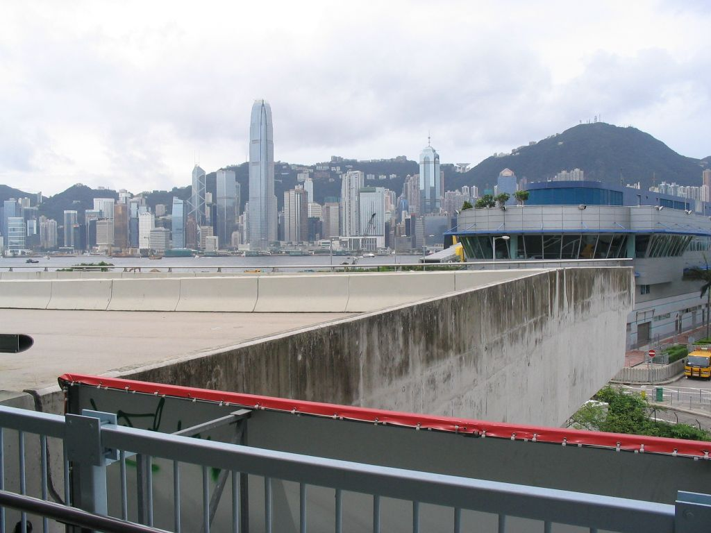 柯士甸道西末端預留位置-近雅翔道 Austin Road West, a reserved section for future extention.